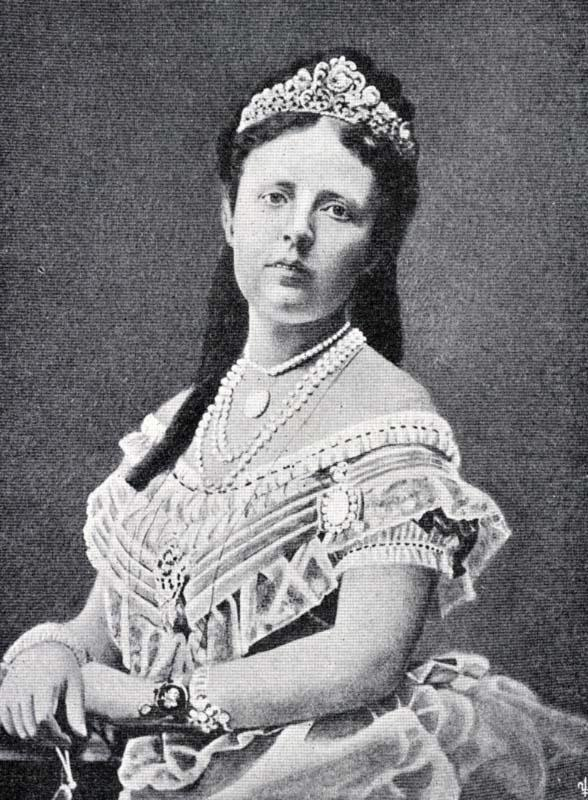 Portrait of Queen Sofia of Sweden and Norway (1836-1913)